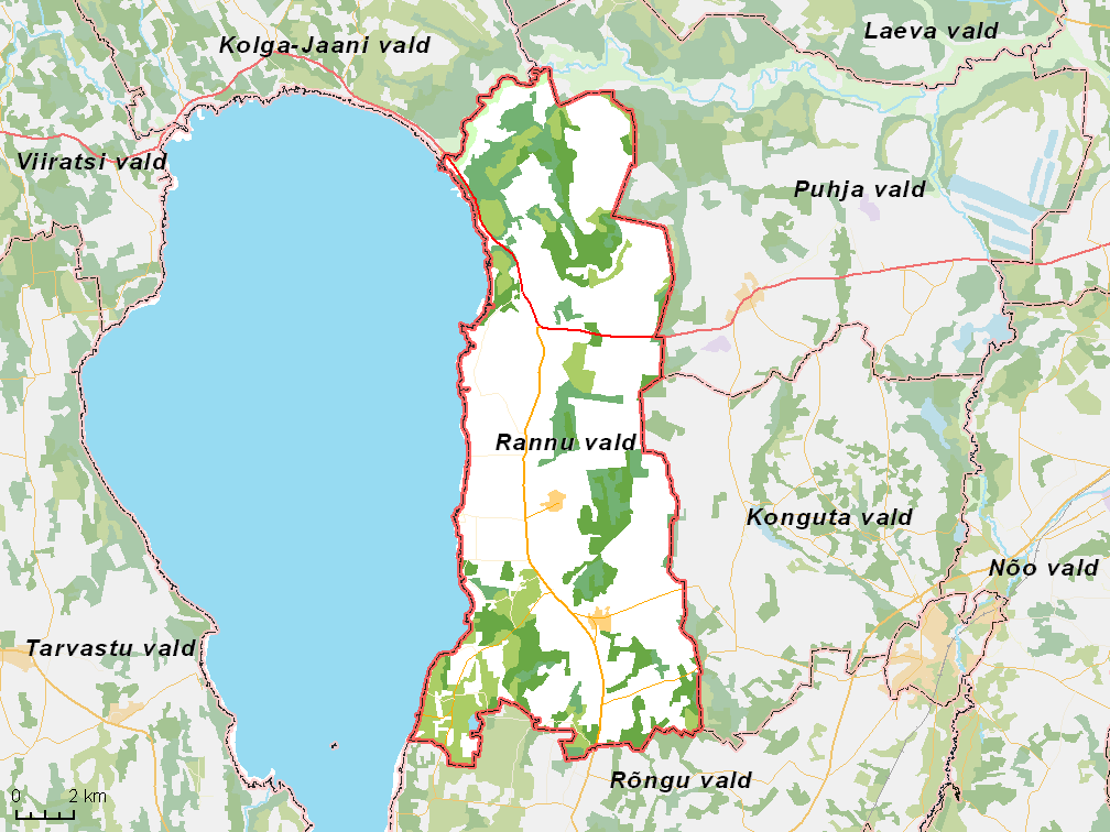 Map of municipality in Estonia